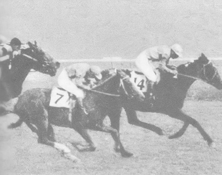 the 16th Japanese Derby 1949-06-05